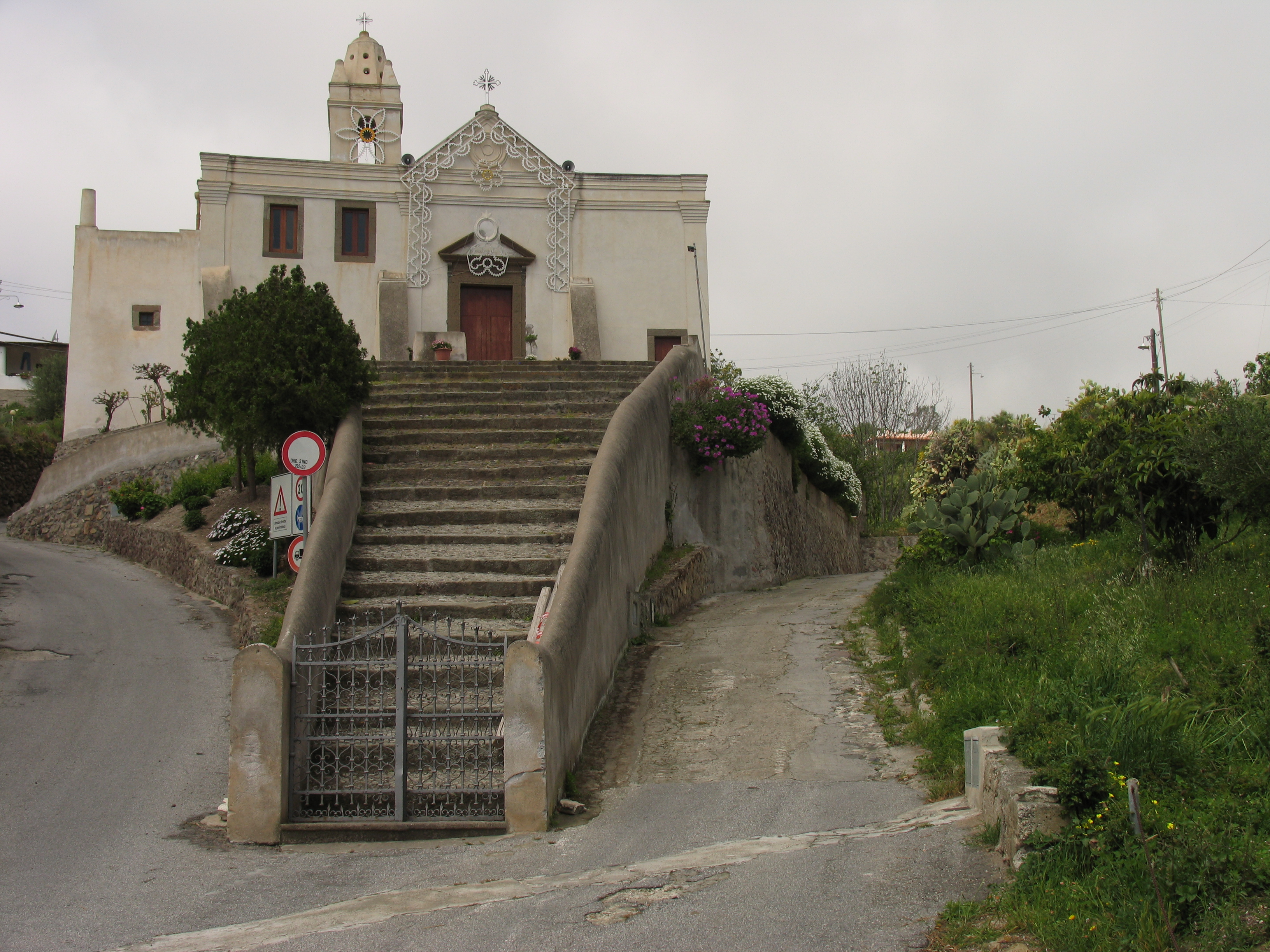 Lipari Islands Church of Announced Mary